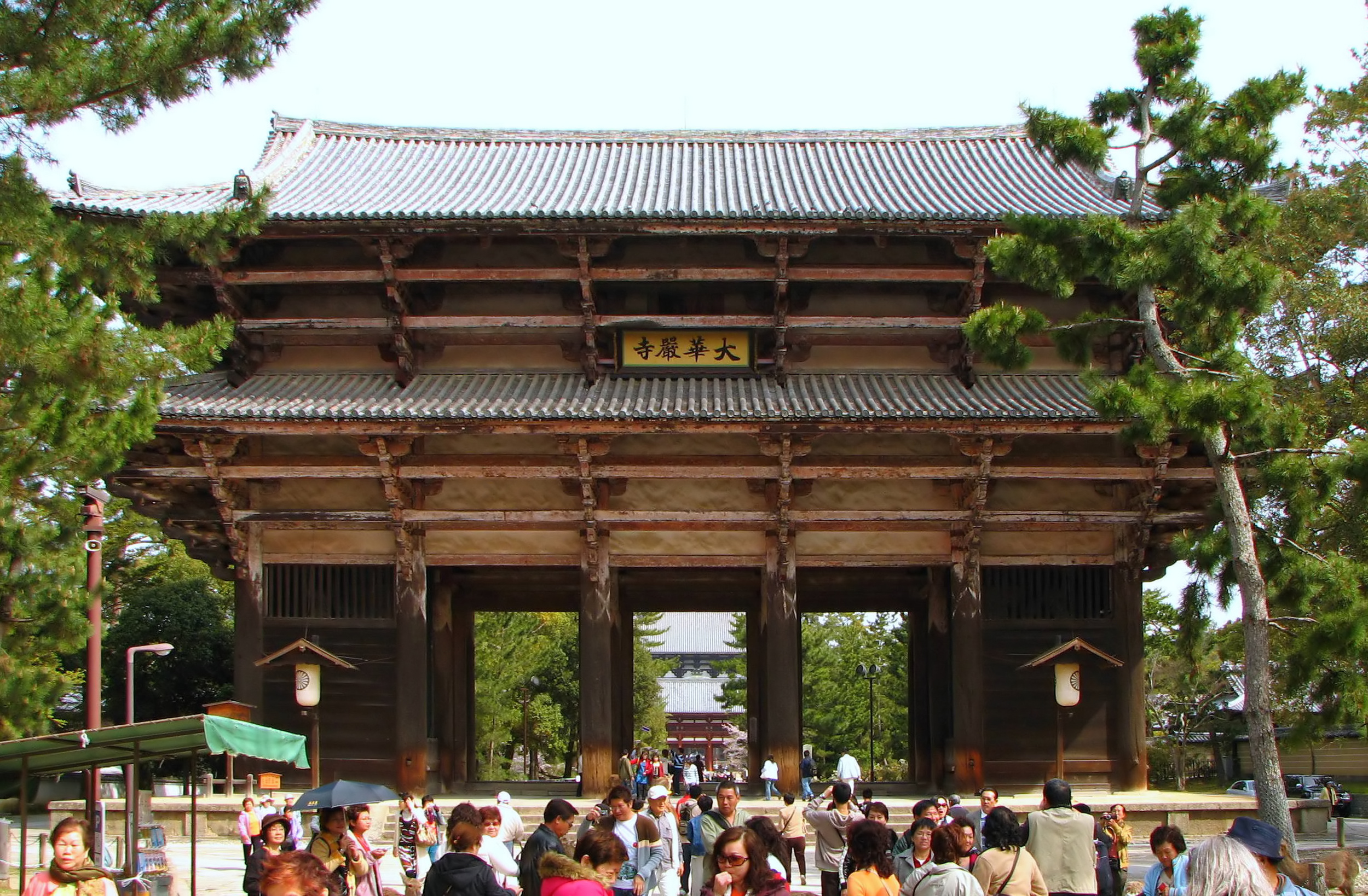 Nandaimon gate of Todai-ji temple, Nara, Nara Prefecture, Japan